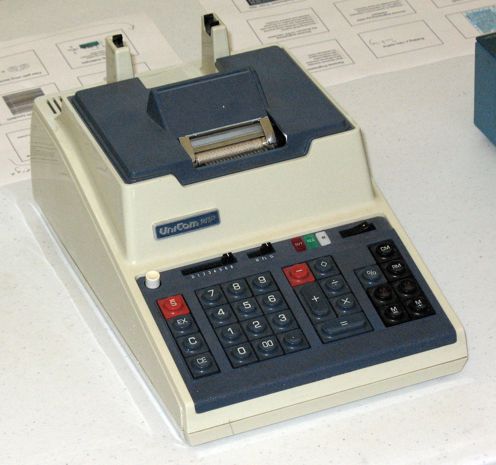 The UniCom 141P printing calculator sold for $695 when introduced in 1972. It was built by Busicom Corp of Japan (formerly Nippon Calculating Machine). The calculator was initially sold as the Busicom 141-PF and then was sold by UniCom and National Cash Register. The integrated circuits used in the calculator were a result of a joint development effort by Busicom and Intel. Intel offered the chip set as the MCS-4 microcomputer system in November 1971. It included the Intel 4004 4-bit CPU, one of the earliest microprocessors. This description is from an advertisement in the July 1972 issue of The Office - Magazine of Management, Equipment, Automation. "Performs chain calculations with or without printing of the intermediate answers. Has two accumulators plus a powerful working register. Lets you flip-flop amounts between registers when multiplying or dividing. Has two complete decimal systems -full floating or floating in/fixed out. Works percentages without decimal indexing. Prints three lines a second, identifies every item, and shows negative answers in red. Performs automatic duplex functions. Weighs just 11 pounds and takes up only a little more desk space than a letterhead." UniCom, 10670 North Tantau Avenue, Cupertino, California 95014 The calculator in this picture was purchased at a thrift store in 2004 for $5 by Sellam Ismail, creator of the Vintage Computer Festival. This photo was taken at VCF 10 held at the Computer History Museum in Mountain View, CA, November 3-4, 2007 by Michael Holley using a Canon PowerShot A630.